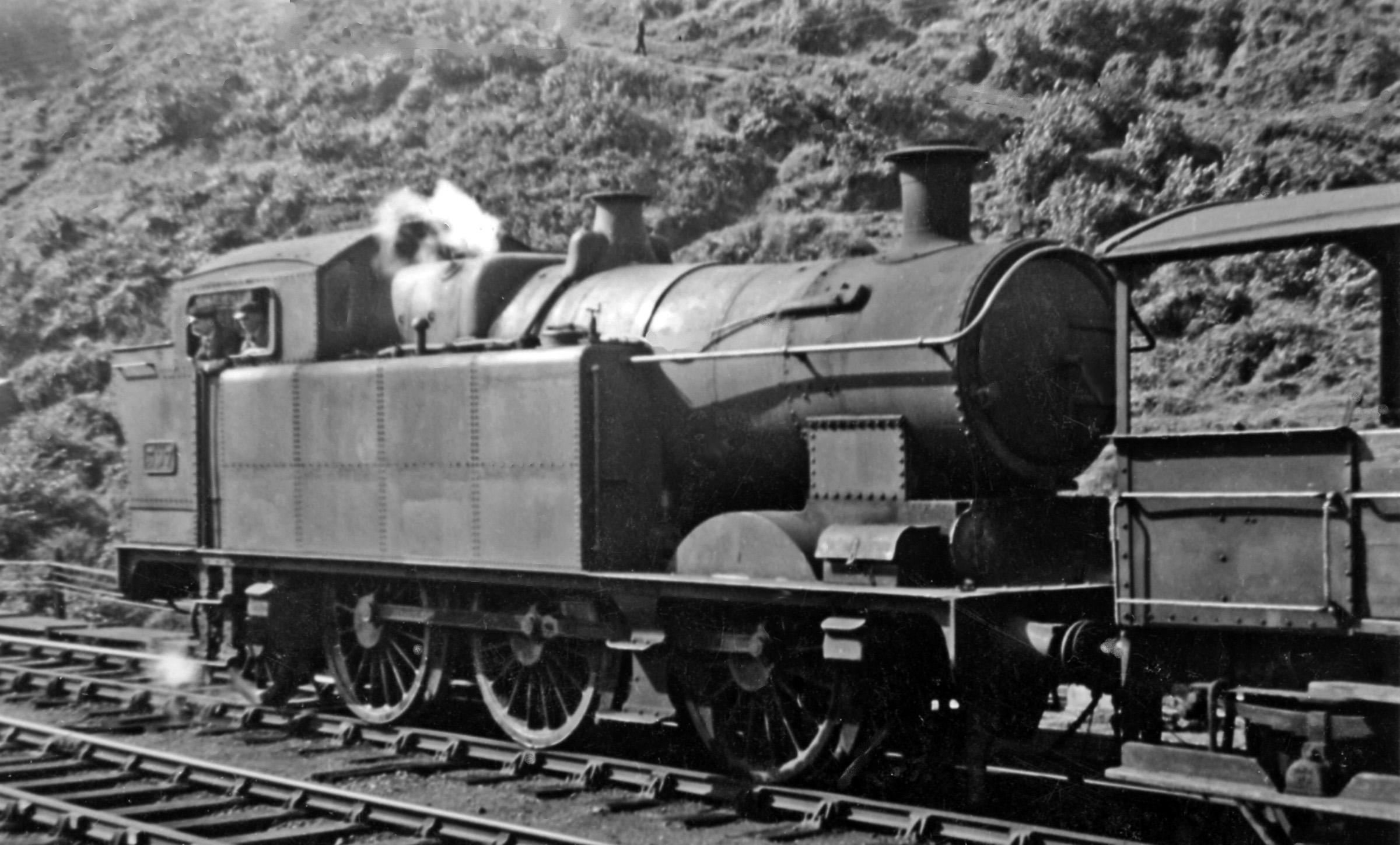 Ex-Taff Vale 0-6-2T at Abercynon View SW, towards Pontypridd, Cardiff etc.: ex-GW (former Taff Vale Railway) Cardiff etc. - Merthyr and Aberdare lines. No. 397 is a Class 'A' 0-6-2T, built 1/21, modified by the GWR 1928-31, withdrawn 4/57.